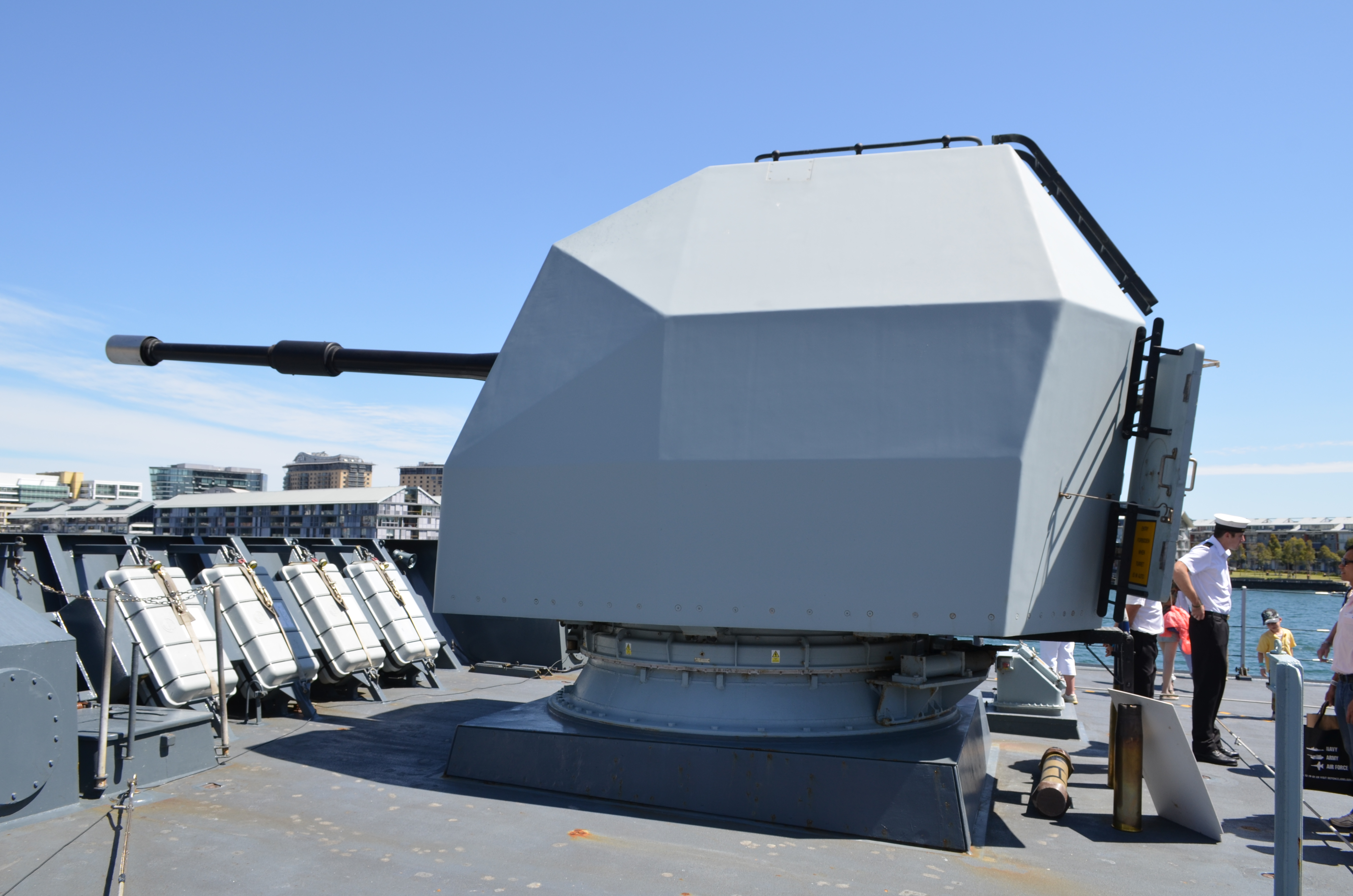 Photographs taken during day 3 of the Royal Australian Navy International Fleet Review 2013. Side view of the 4.5 inch Mark 8 naval gun on HMS Daring, on display during the International Fleet Review open days.